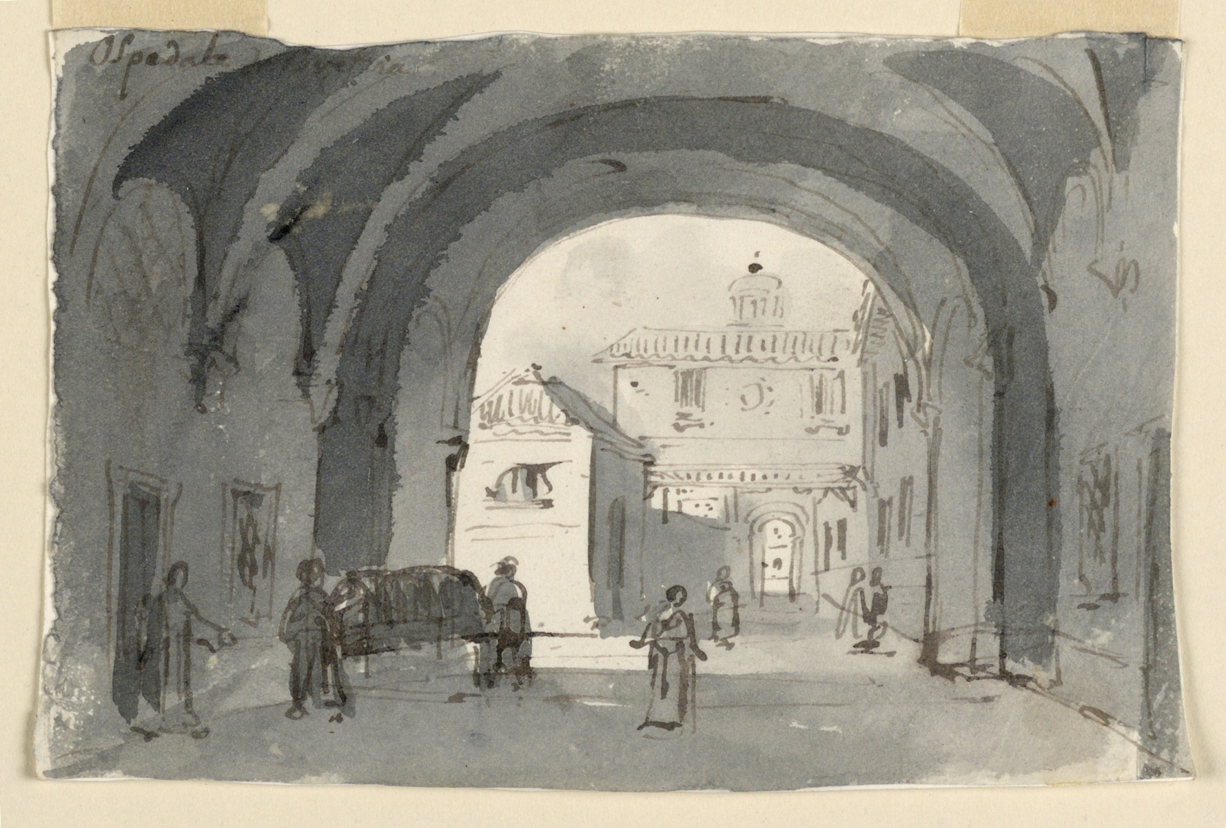 Horizontal rectangle. View through vaults to background with buildings. Figures under vaulted archway, two men at left carrying stretcher.